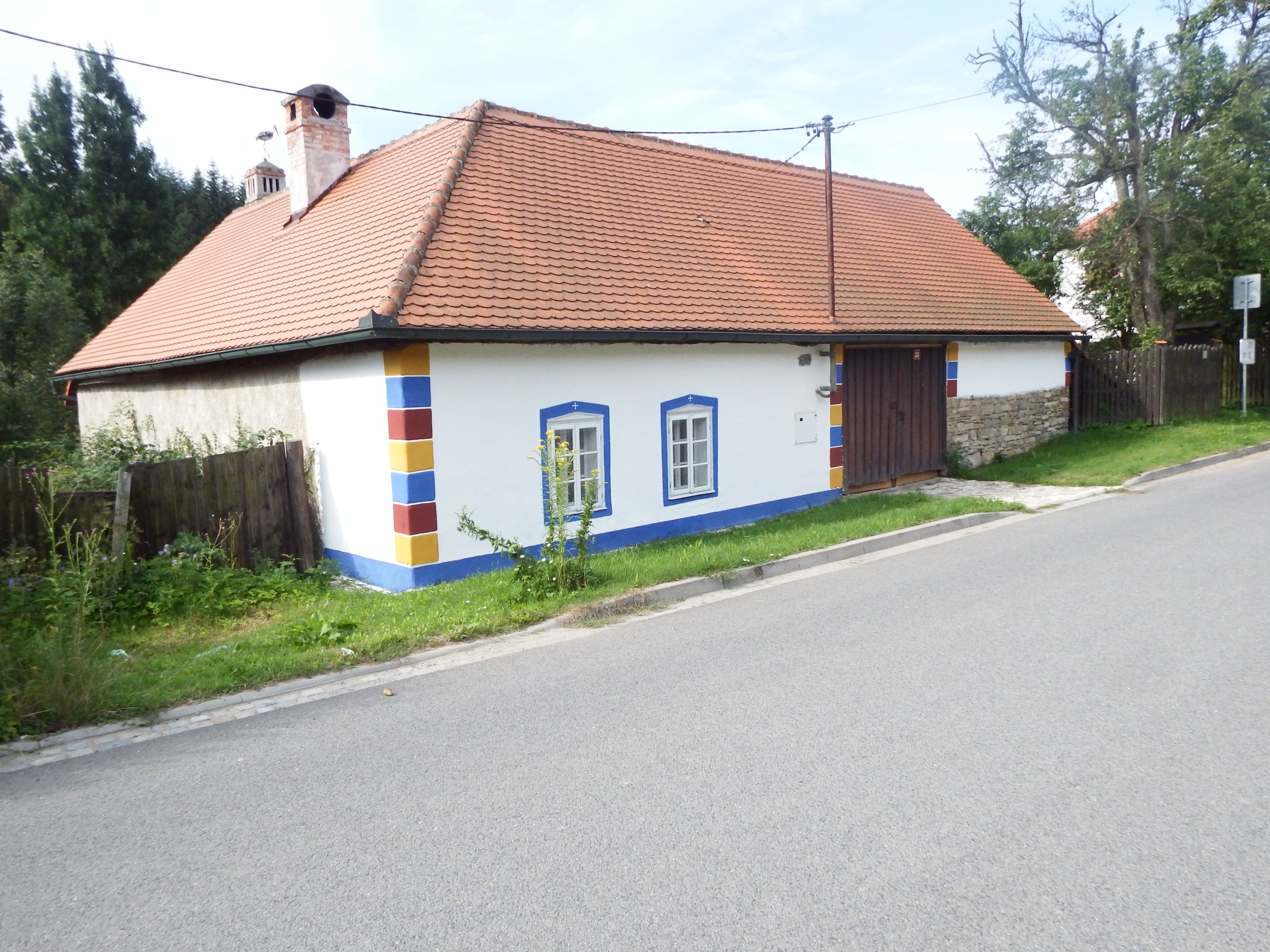 Nová Lhota, Hodonín District, Czech Republic, part Vápenky.